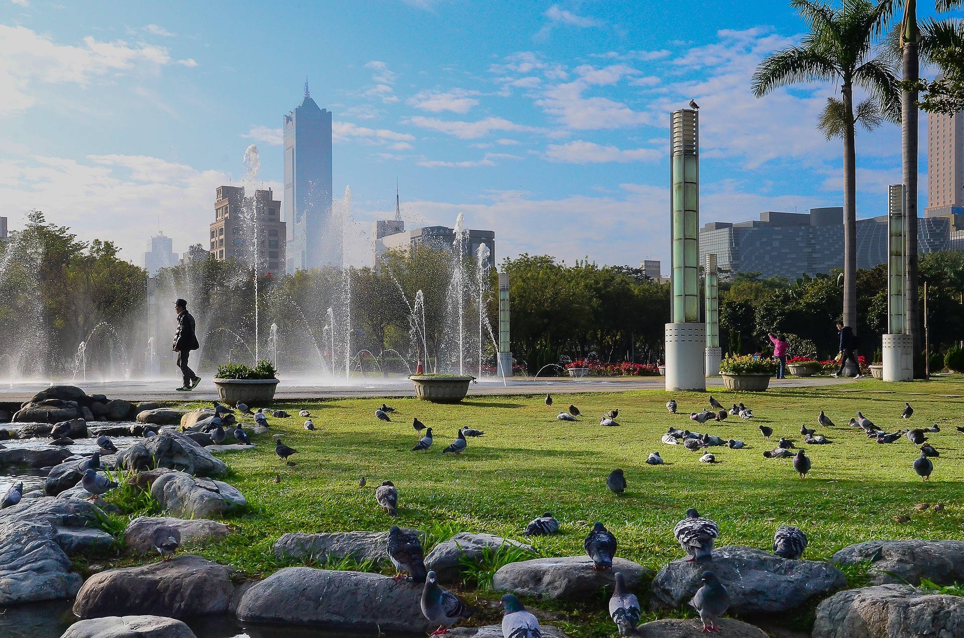 Pigeons in Kaohsiung Central Park, Taiwan in 2016